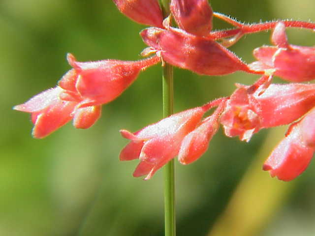 Species: Heuchera sanguinea Family: Saxifragaceae Image No. 1